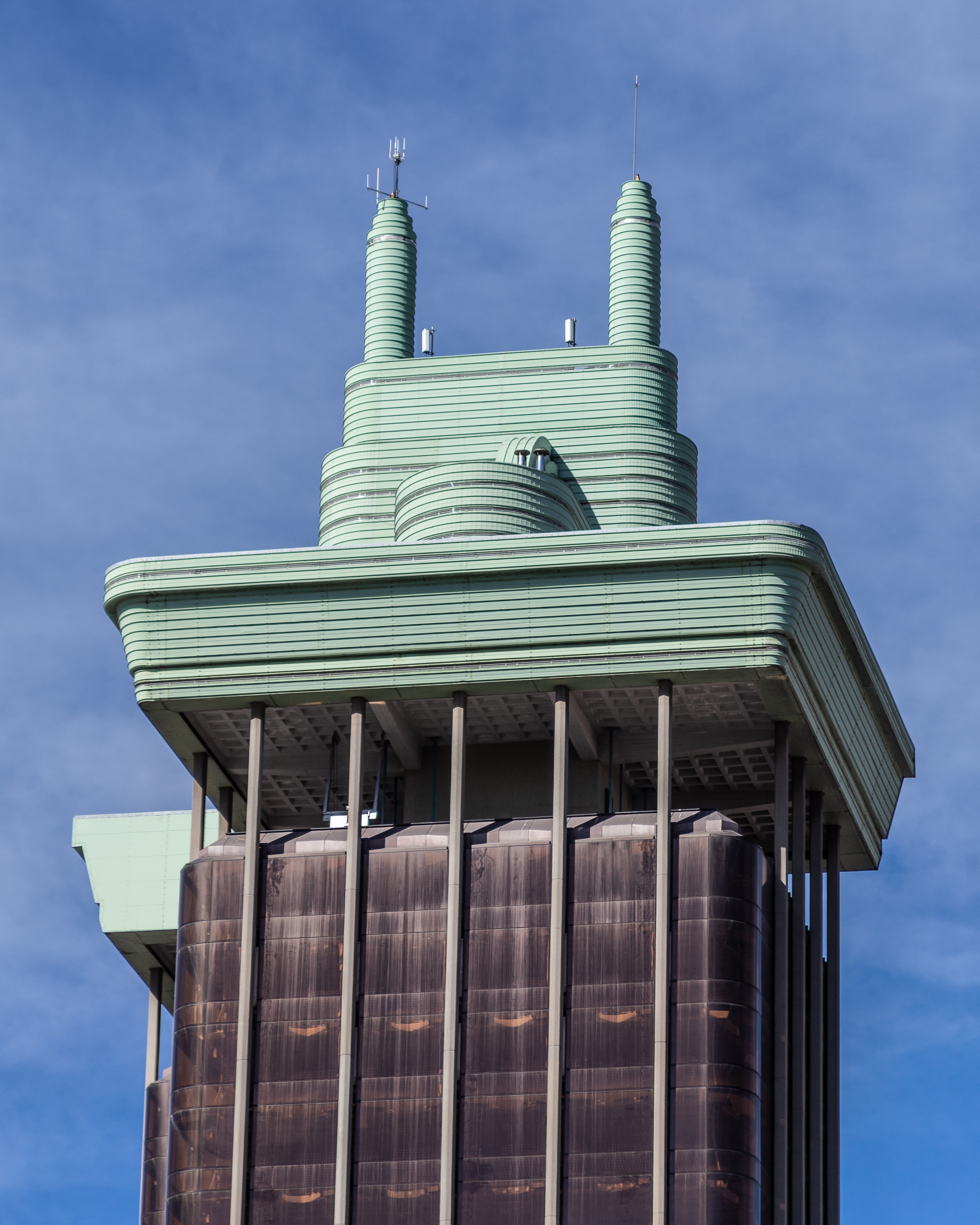 Copper roof structure in a layered Art Deco design and top half of the beautiful (to me, at least) Torres de Colón office building in central Madrid